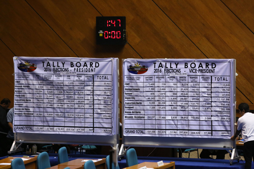 Results of the canvassing of votes for the 2016 Presidential and Vice Presidential elections are posted on a tally board at the Plenary Hall of the House of Representatives in Quezon City.